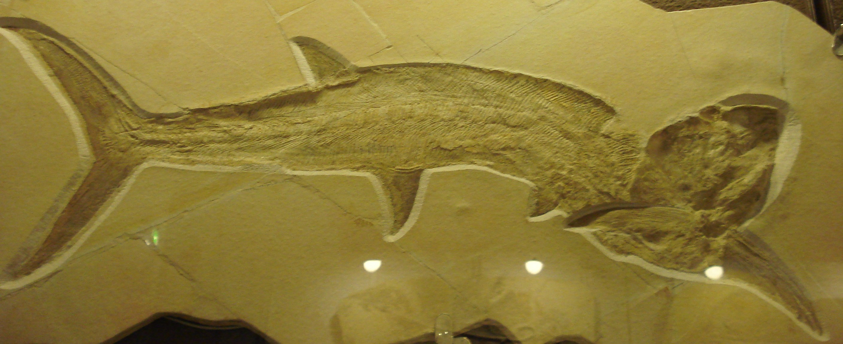 fossil of sauropsis